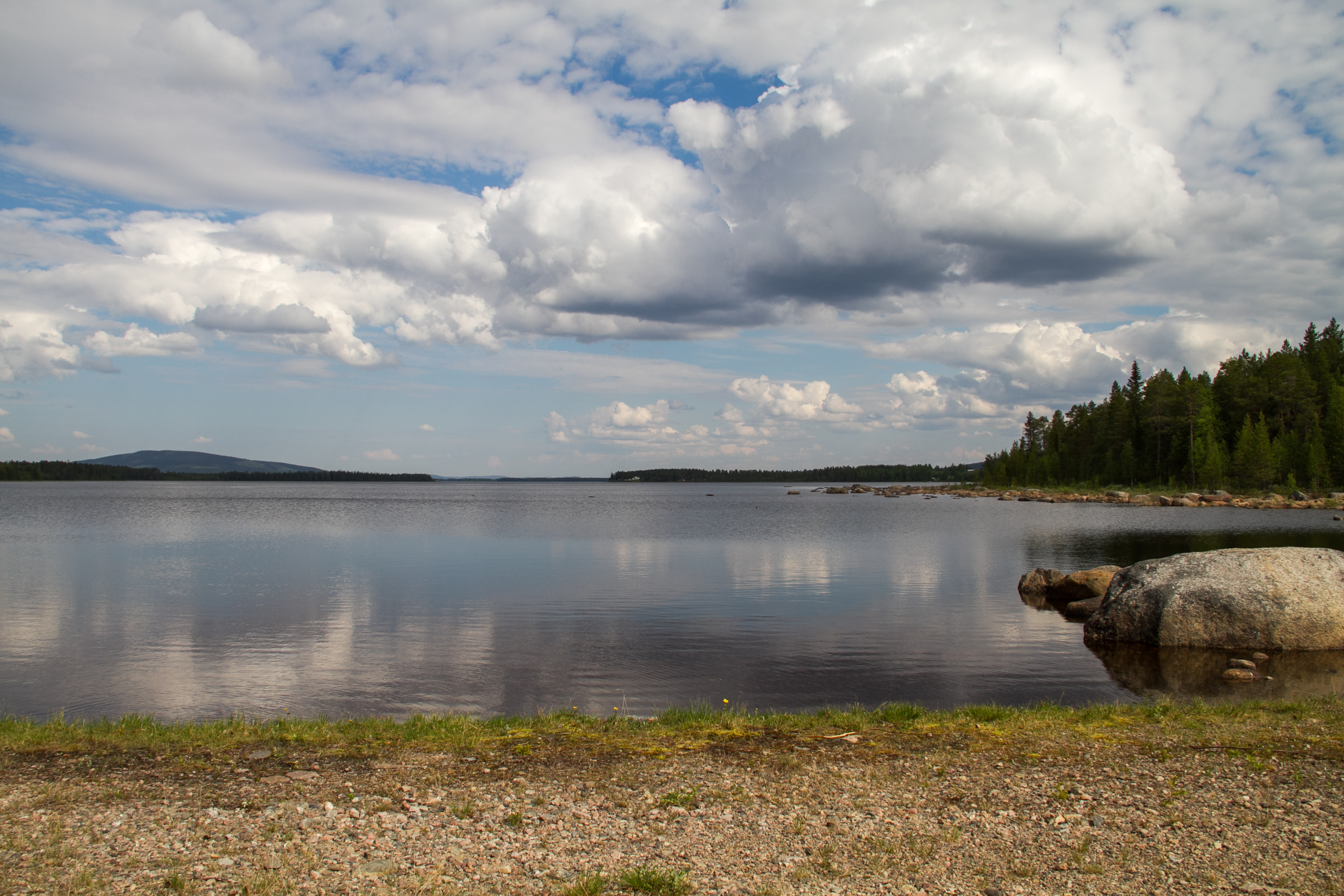 The lake Nastajaure at Slagnäs, Arjeplog municipality, Norrbotten county, Sweden